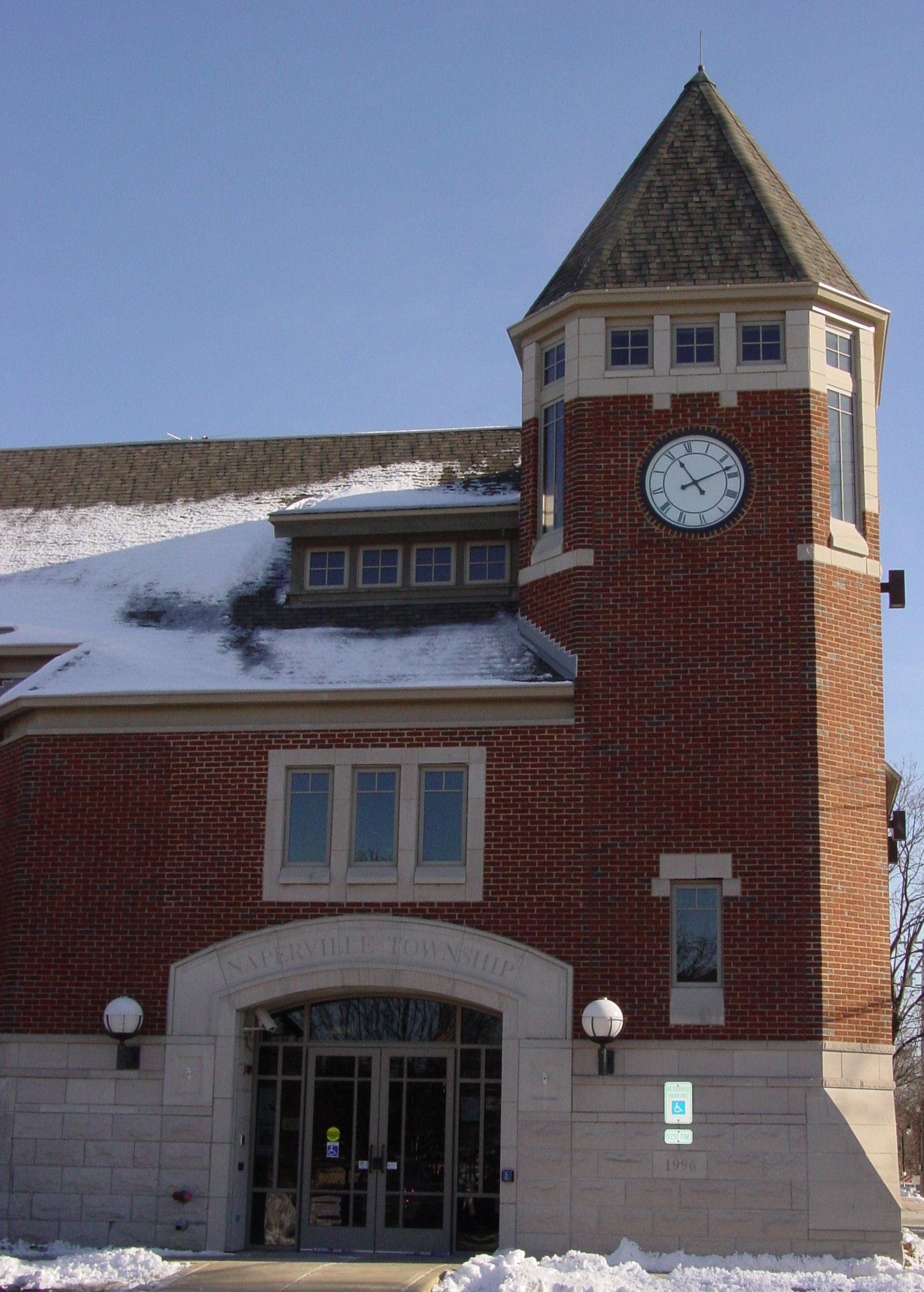 Exterior of the offices of Naperville Township, DuPage County, Illinois, USA. Located in Naperville Illinois at the corner of Water and Webster Streets.